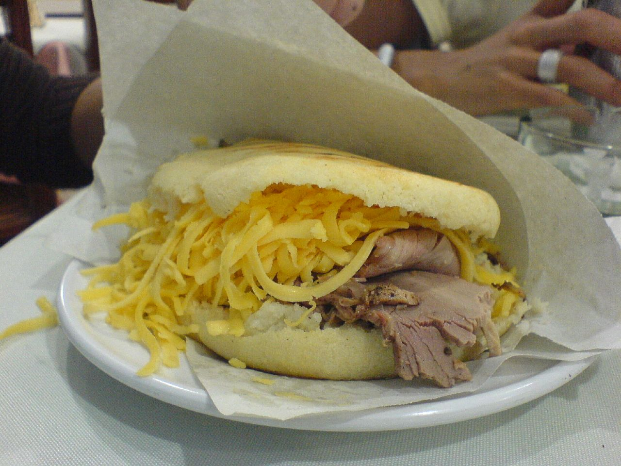 Venezuelan arepa.